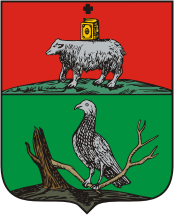 Krasnoufimsk (Sverdlovsk oblast), coat of arms (1783)